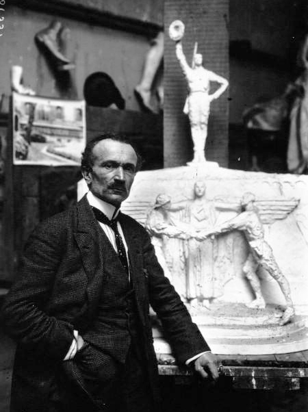 French sculptor Jean Boucher (1870-1939) with a plaster model of his monument to the American volunteers of the Great War.